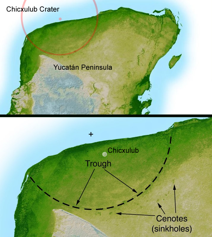 This shaded relief image of Mexico's Yucatán Peninsula shows a subtle, but unmistakable, indication of the Chicxulub impact crater. Most scientists now agree that this impact was the cause of the Cretatious-Tertiary Extinction, the event 65 million years ago that marked the sudden extinction of the dinosaurs as well as the majority of life then on Earth.